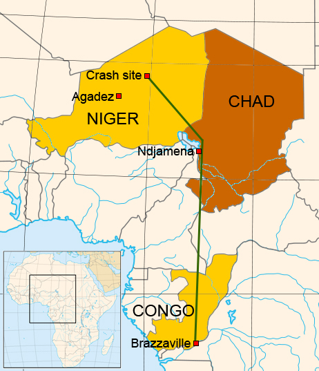 A Map of the flight of UTA Flight 772 on September 19, 1989. (English)